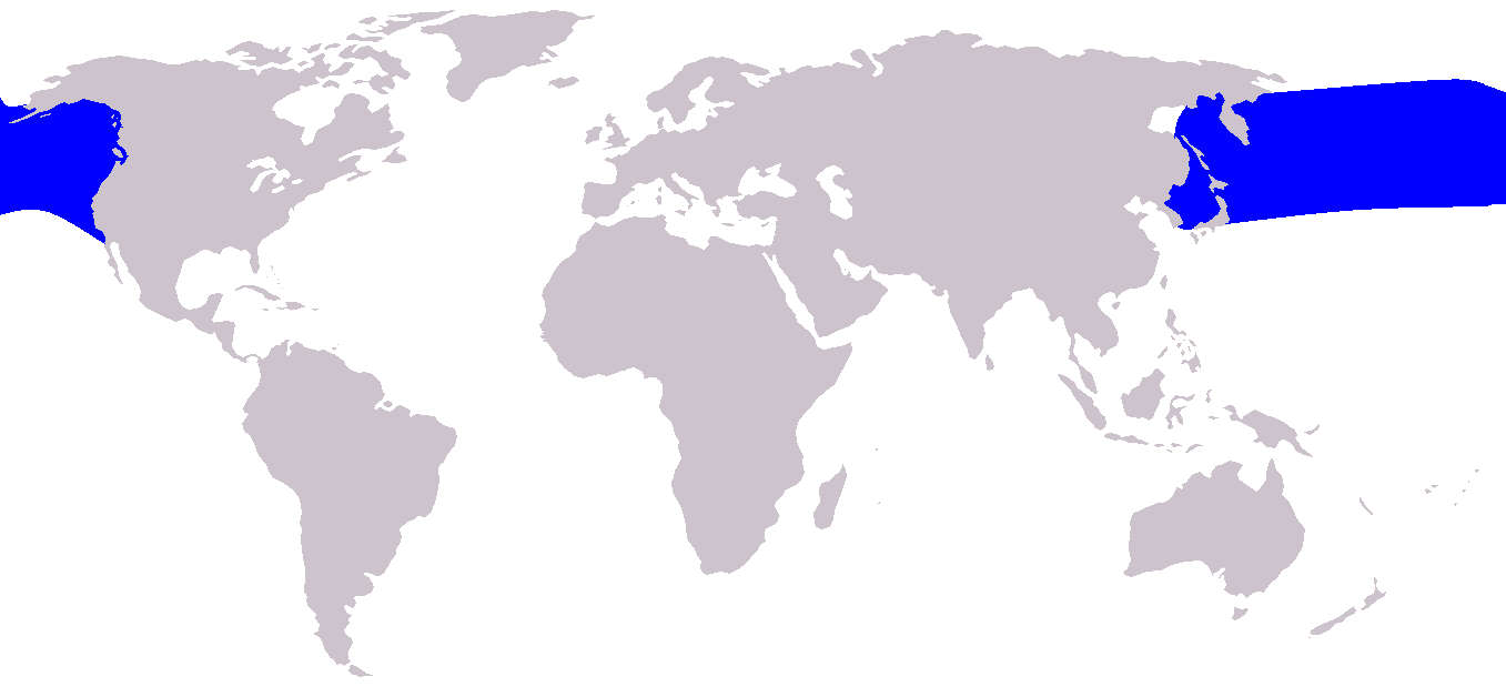 Cetacea range map for Dall's Porpoise (Phocoenoides dalli)